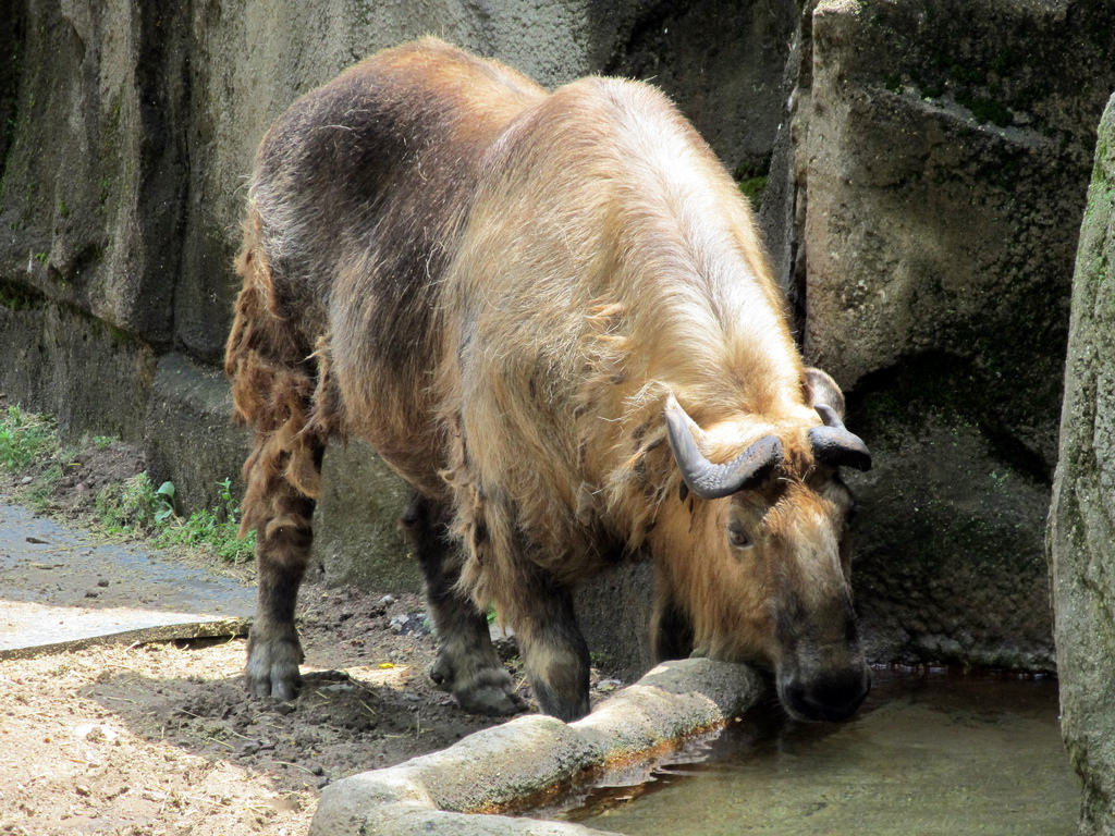 Thibetan Takin (Budorcas taxicolor tibetana) in the Lincoln Park Zoo This giant goat species decided to take a drink.